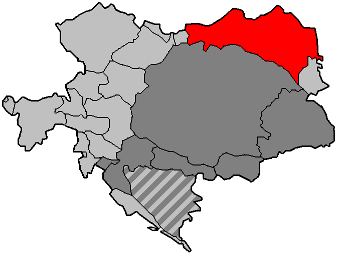 Map of Austria-Hungary